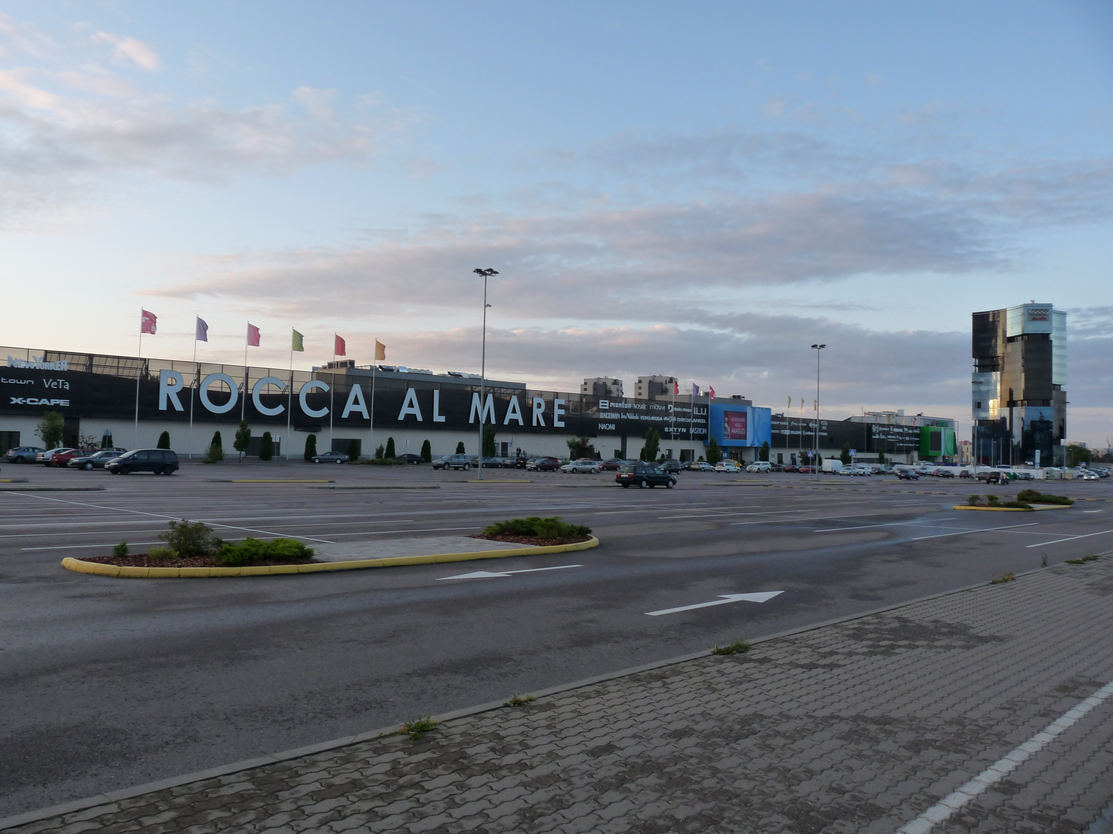 Rocca al Mare tradecenter in Haabersti